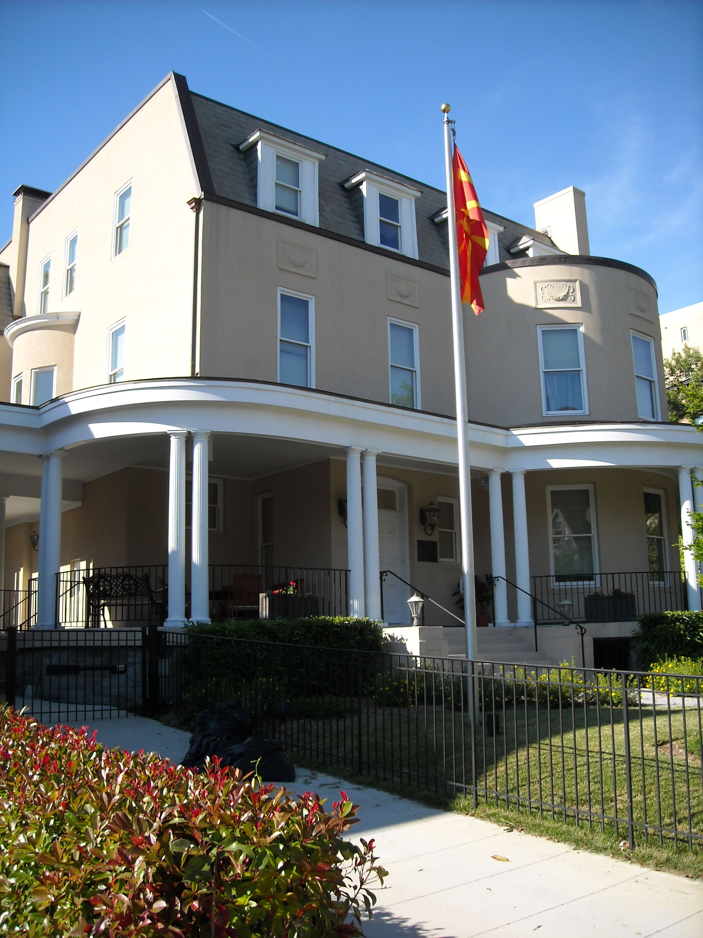 The veranda of the Embassy of the Republic of Macedonia (also known as the Moses House) — located at 2129 Wyoming Avenue, N.W., in the Sheridan-Kalorama neighborhood of Washington, D.C. Designed by Thomas Franklin Schneider in 1893, the building is in the Queen Anne style, with Neoclassical style architectural features. The embassy is a contributing property to the Sheridan-Kalorama Historic District, and listed on the National Register of Historic Places in Washington, D.C. Now owned by the government of the Republic of Macedonia, it served as the Embassy of France for almost 40 years.